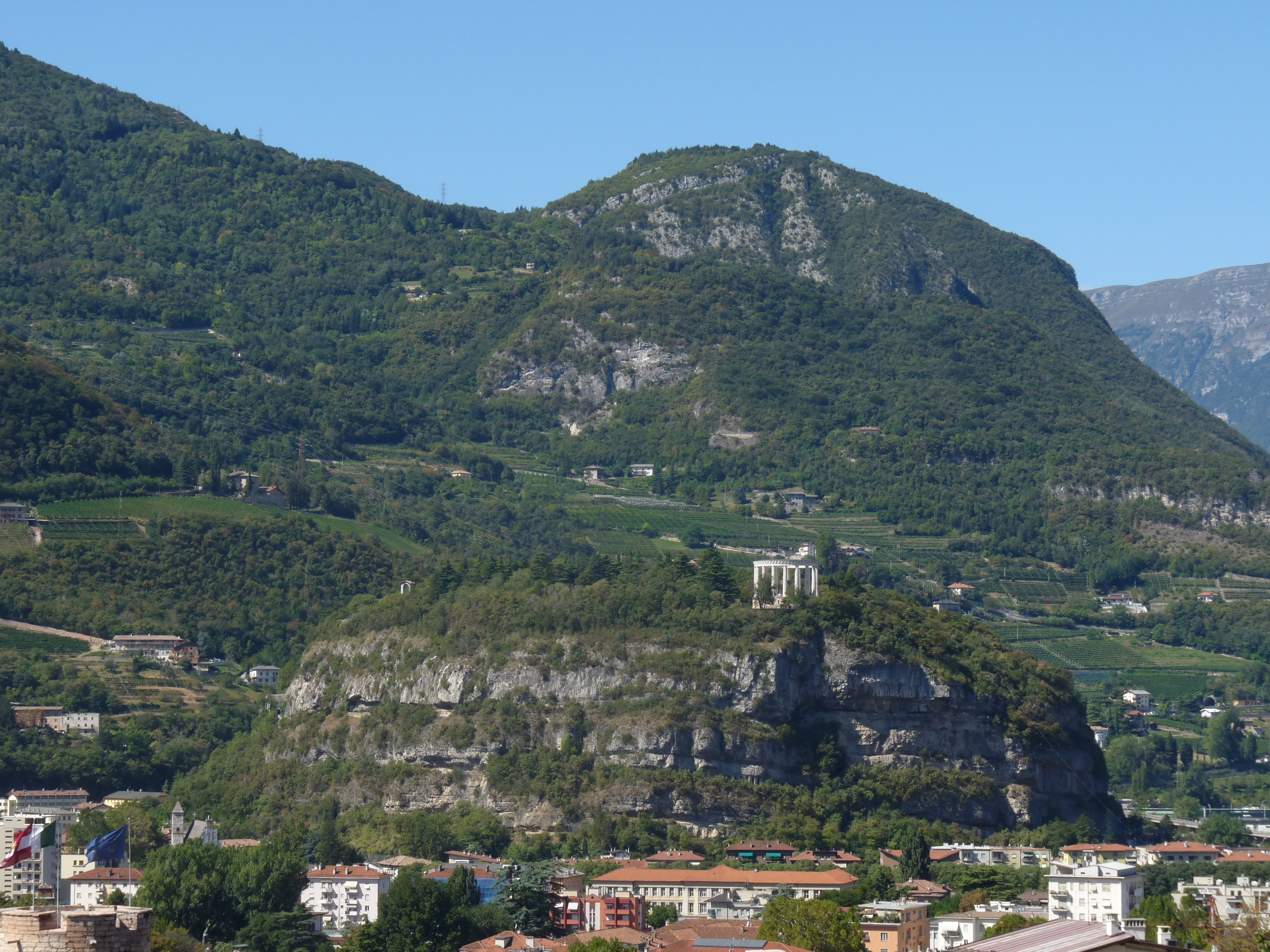 Trento (Italy): Doss Trento